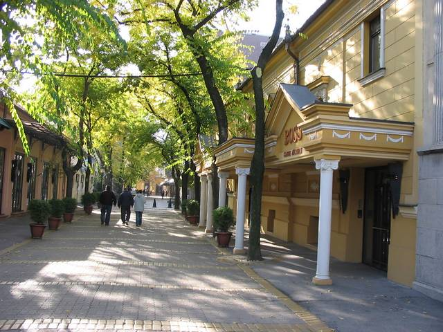 Subotica